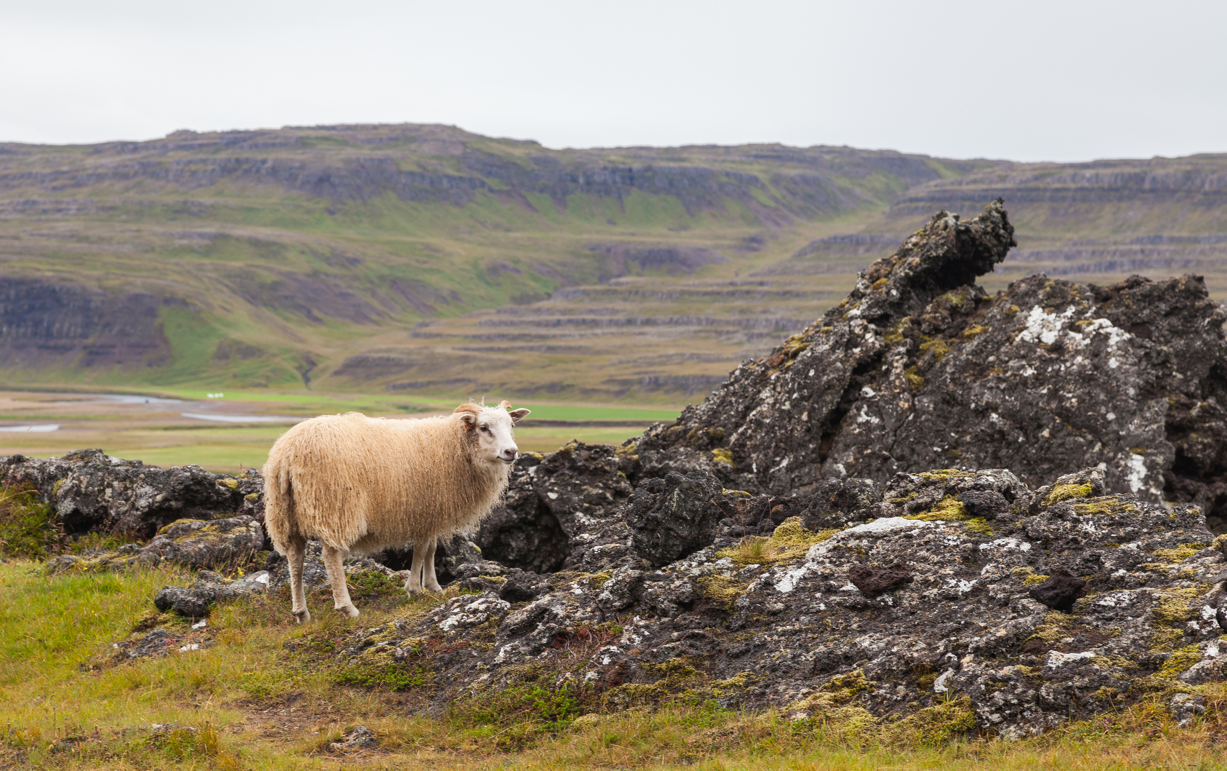 Icelandic sheep, Grábrók, Vesturland, Iceland